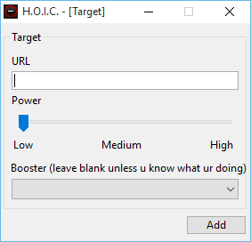 Screenshot of High Orbit Ion Cannon's interface for adding a target to High Orbit Ion Cannon (HOIC).